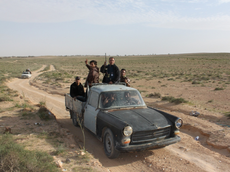 Armed rebels return from the brushland outside the key oil town of Brega after driving away the last of the pro-Gaddafi forces who assaulted the airport, refinery and university early in the morning.